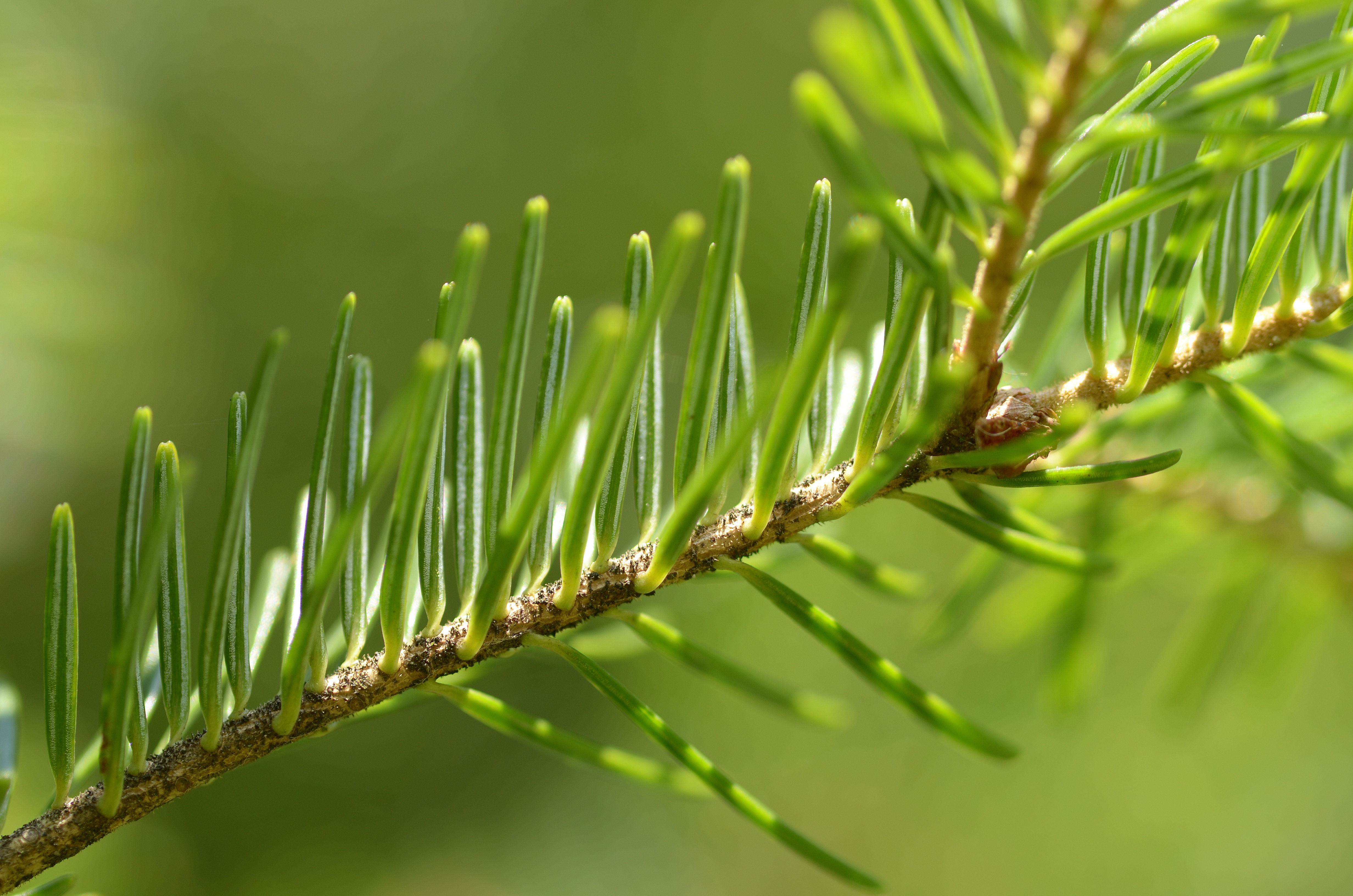 Twig of the Abies alba with visible hairiness and «suction cups» of the leaves.